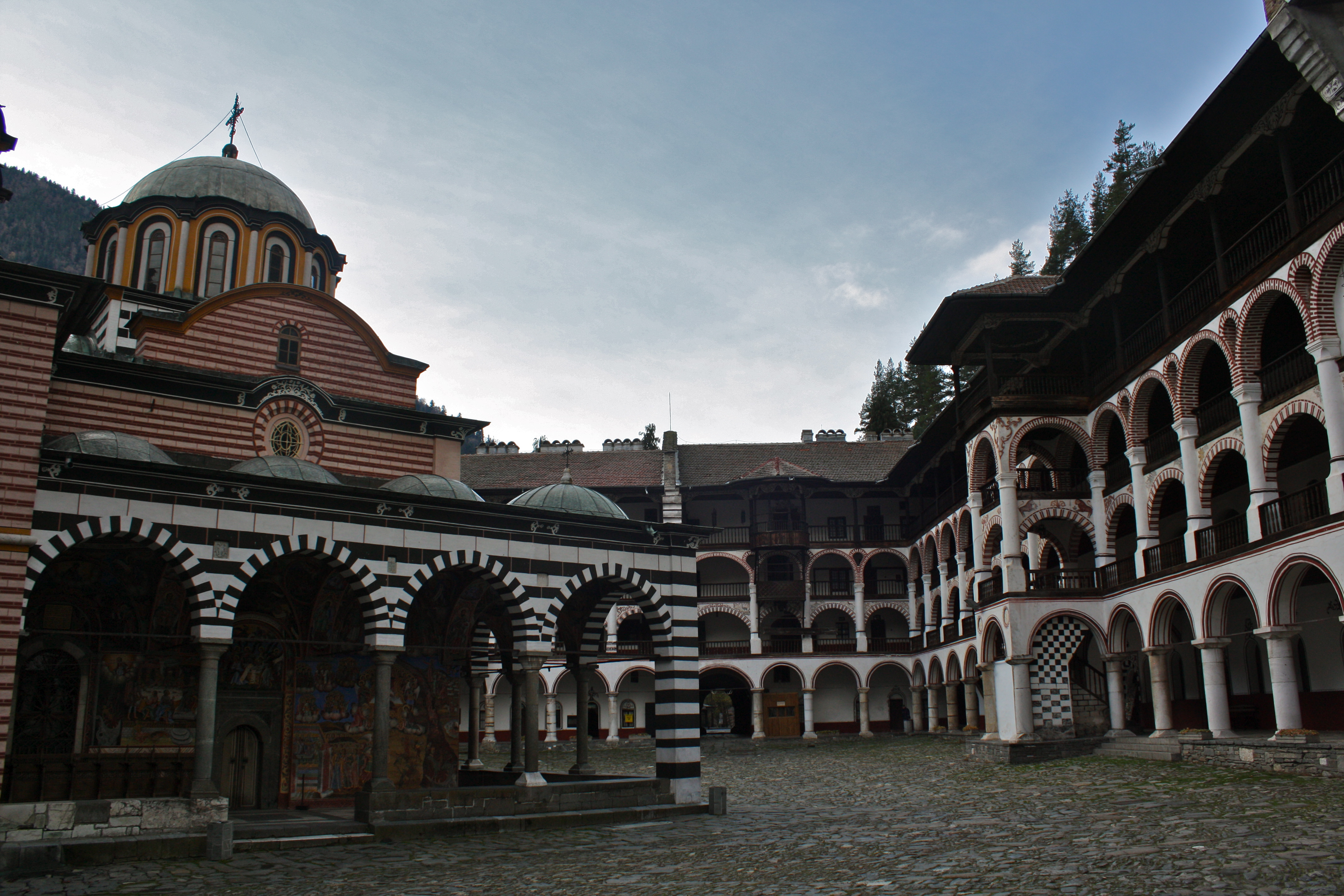 The yard of Rila Monastery